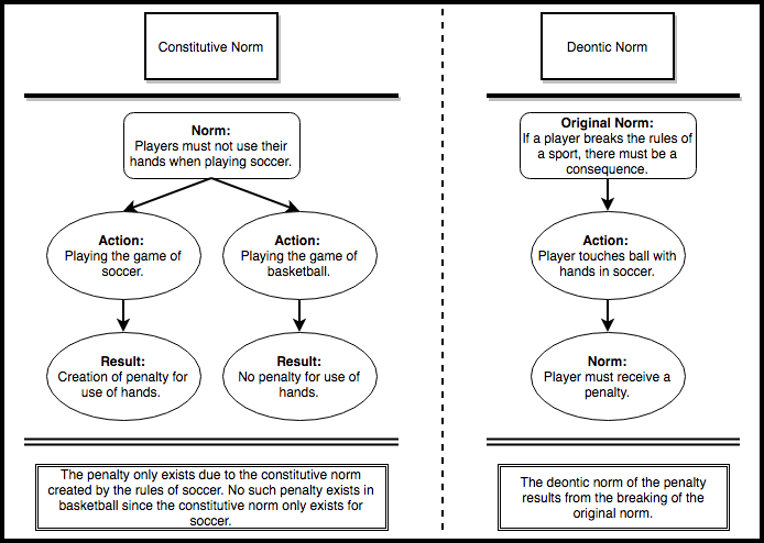 A flowchart comparing constitutive norms and deontic norms, clarifying the difference and use of each.